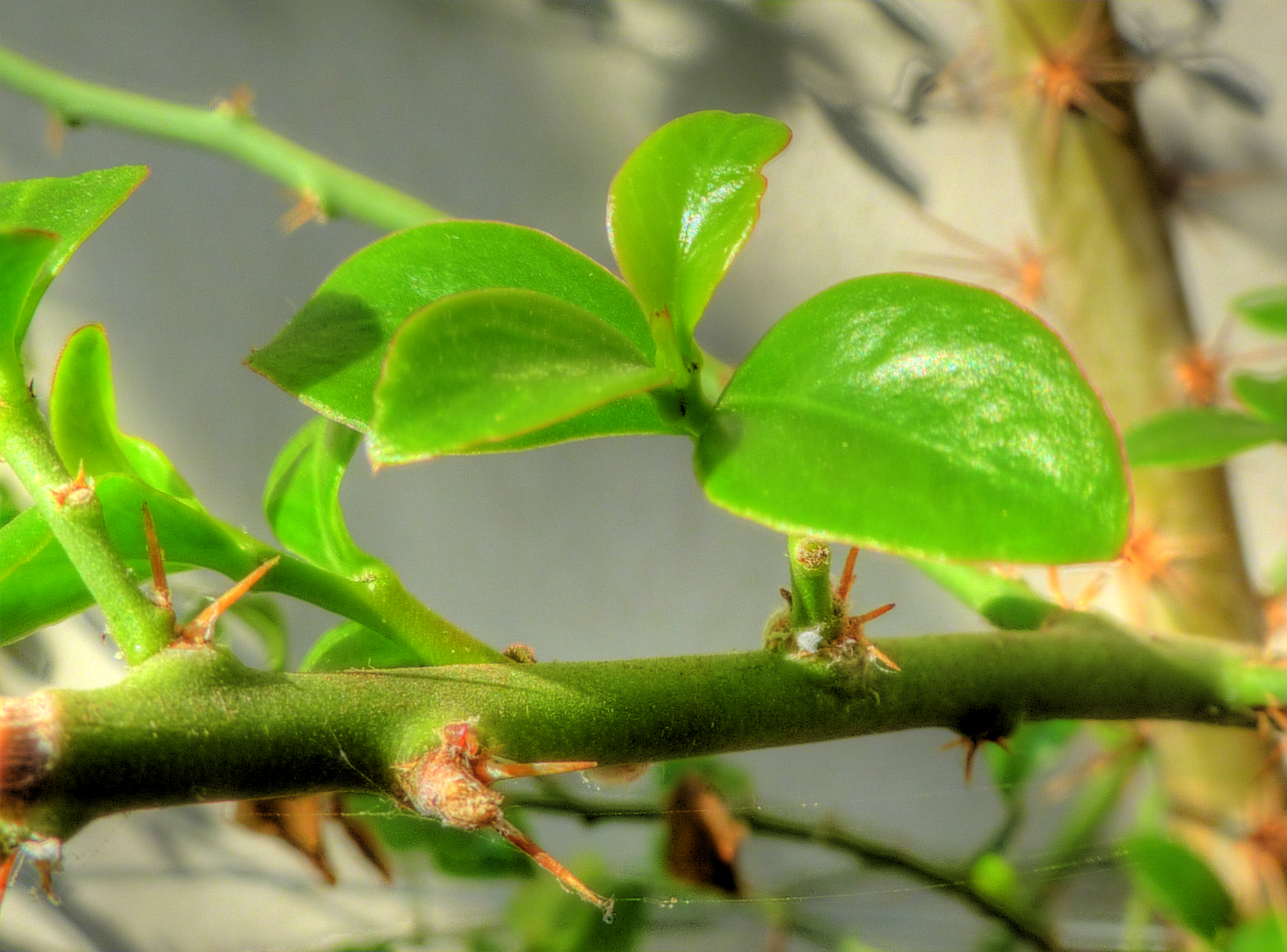 Taken in the Cambridge University Botanic Garden.